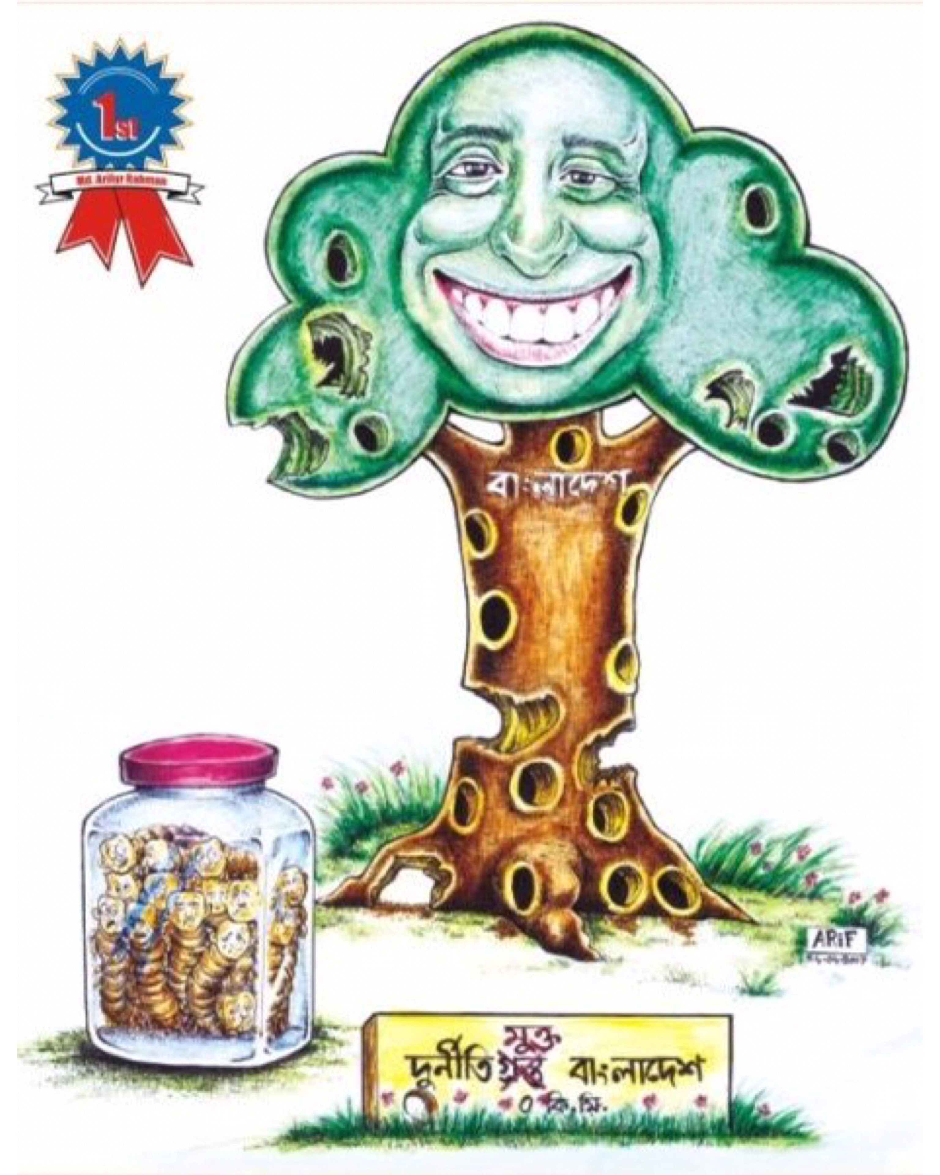 The Daily Star Newspaper Bangladesh 2007, Award-winning Anti-corruption cartoon by Arifur Rahman. Cartoon from the Archive.